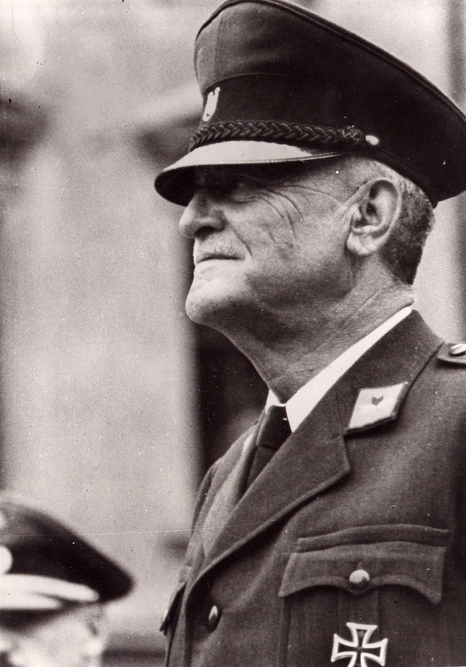 Croatian field marshal Slavko Kvaternik in the Ustashe uniform.